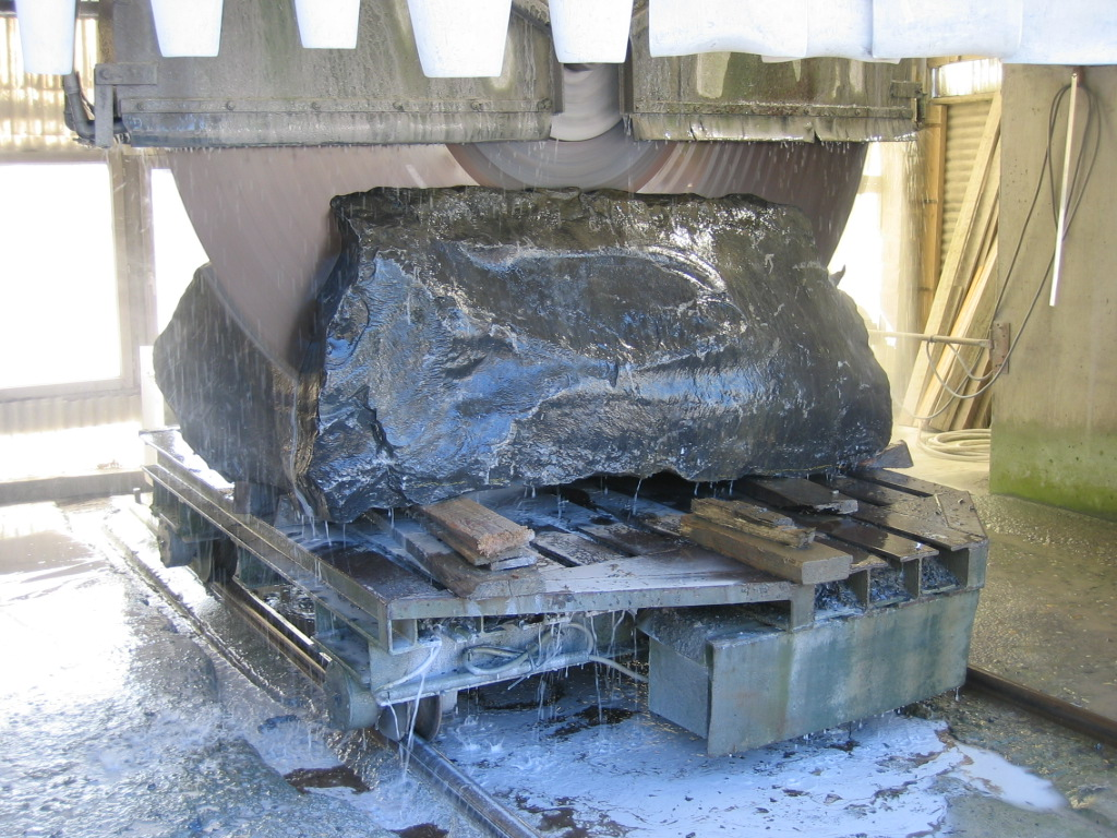 Water cooled machine sawing limestone in pieces. Vally of the Meuse River, Belgium, between Namur and Liège. Picture by Tim Bekaert, April 21, 2005.